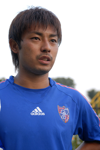 A picture of Shingo Akamine.